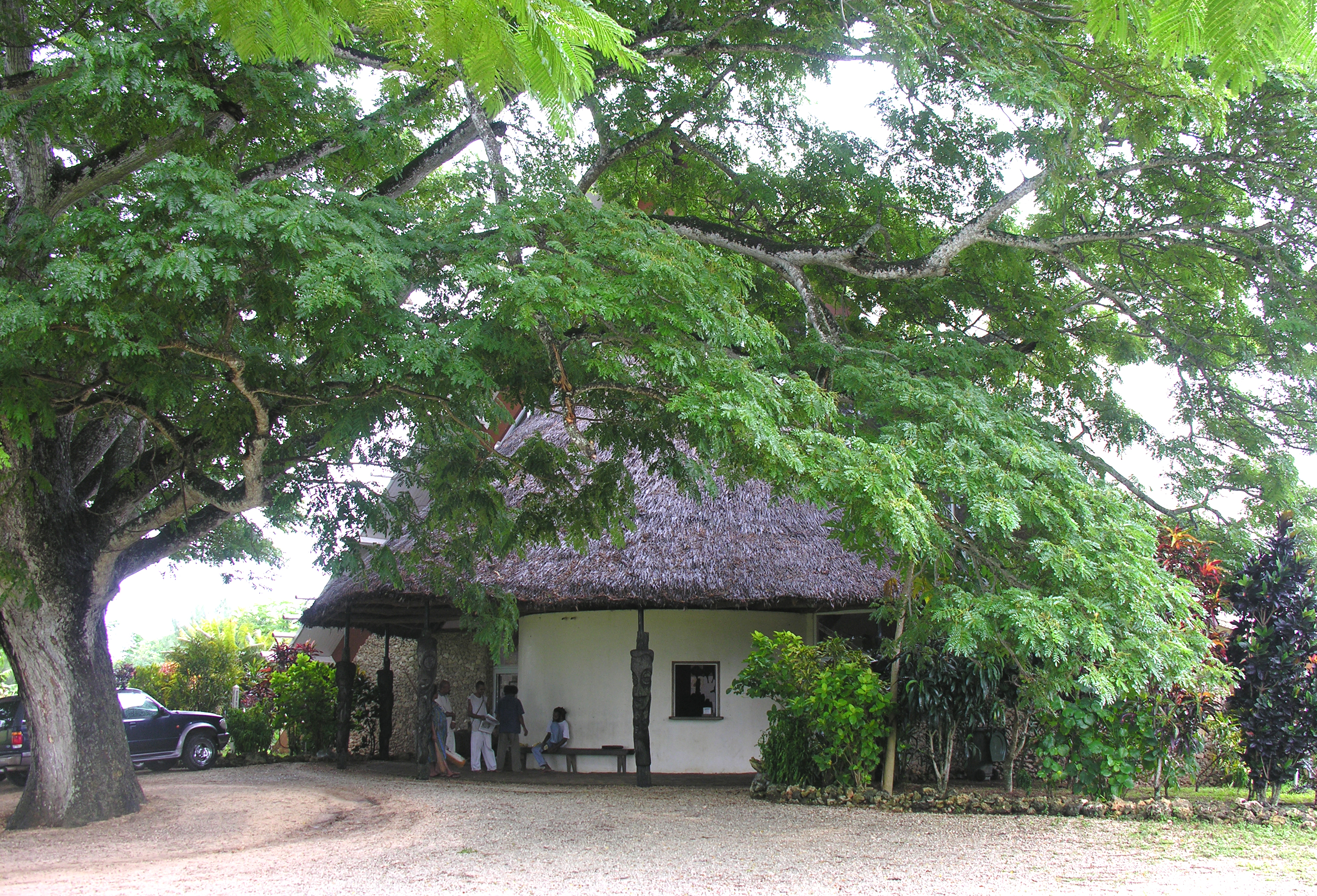 Entrance to the National Cultural Centre, Port Vila, Vanuatu